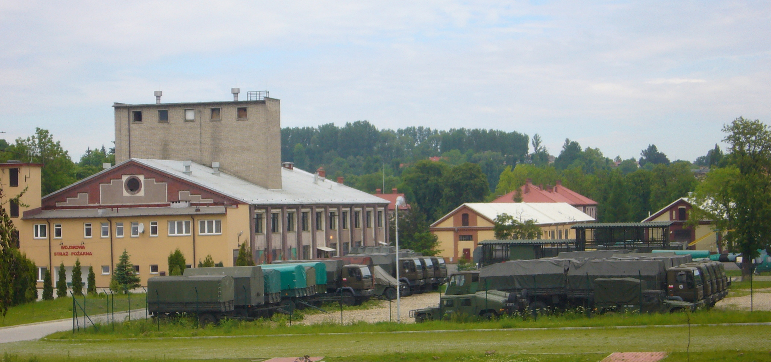 Barracks in Bielsko-Biała, Poland. View from Bora-Komorowskiego Str.